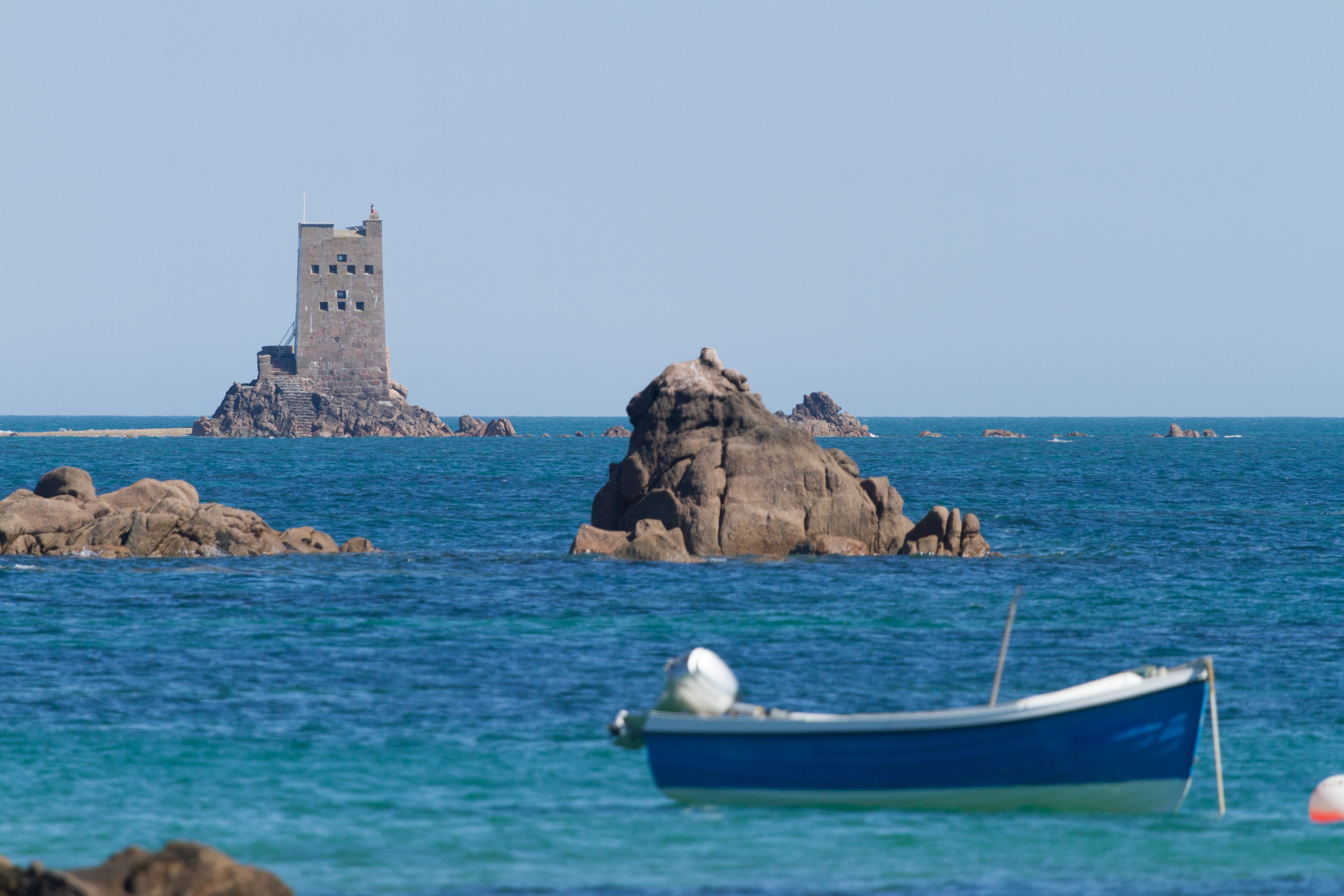 Seymour Tower in Jersey.